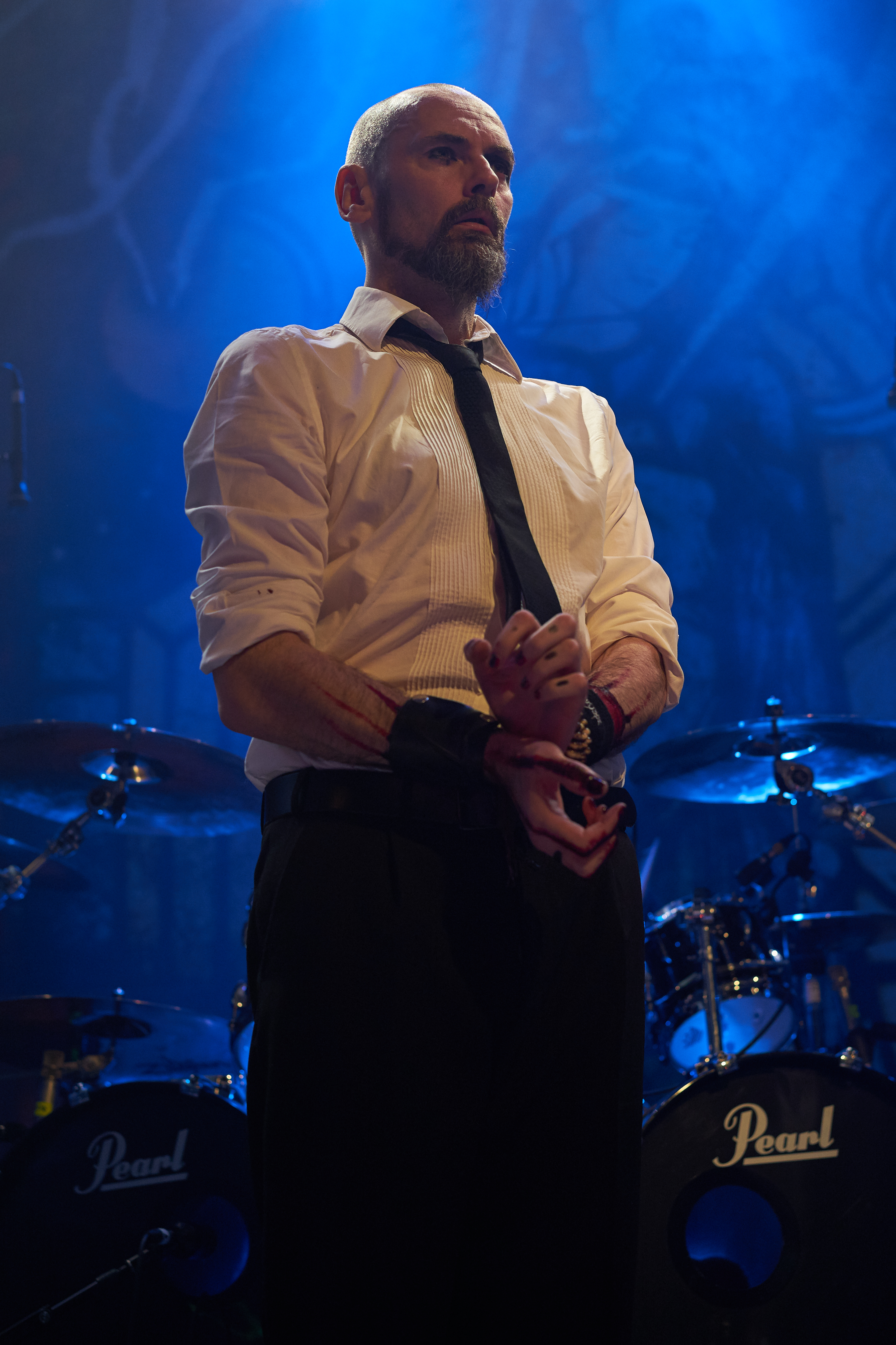 British band My Dying Bride at Hammer of Doom Festival, Würzburg, Posthalle, 21.11.2015 Festivalsommer This photo was created with the support of donations to Wikimedia Deutschland in the context of the CPB project "Festival Summer". Personality rights warningAlthough this work is freely licensed or in the public domain, the person(s) shown may have rights that legally restrict certain re-uses unless those depicted consent to such uses. In these cases, a model release or other evidence of consent could protect you from infringement claims.